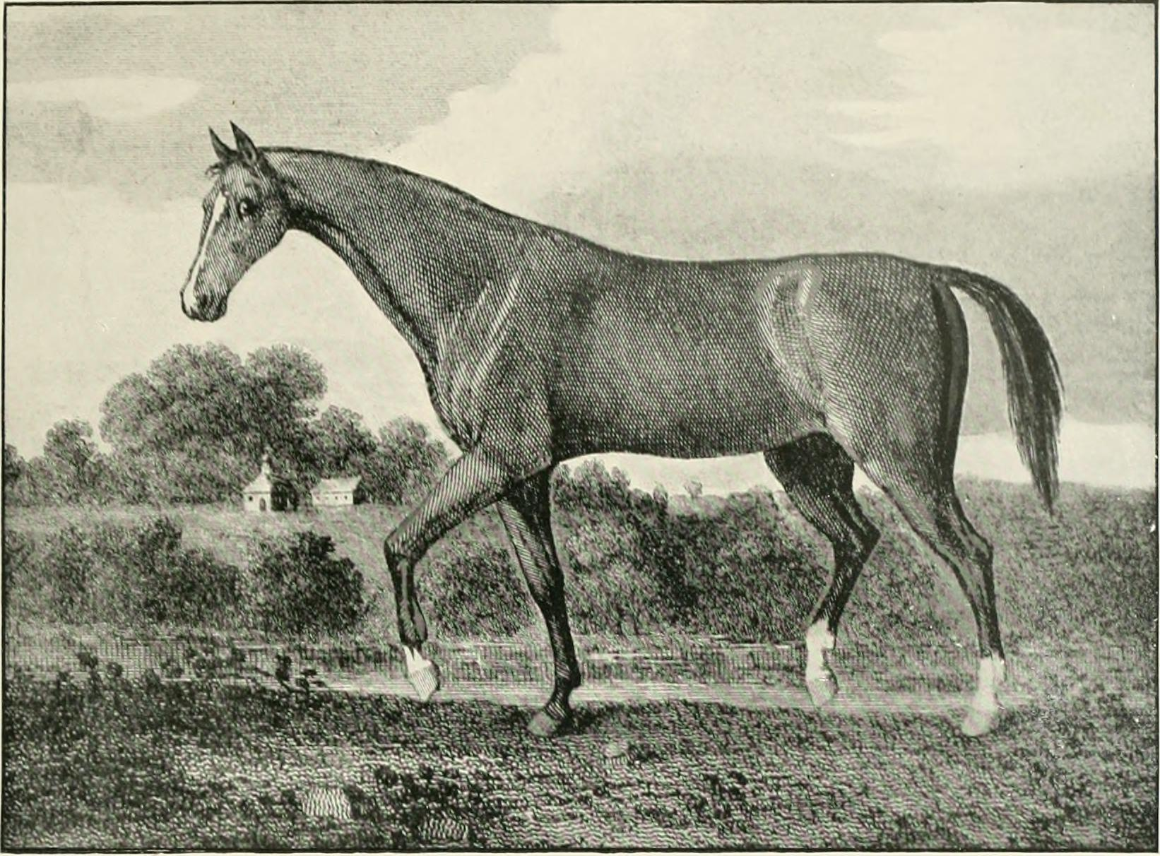 The Darley Arabian Title: The horse, its treatment in health and disease with a complete guide to breeding, training and management Year: 1906 (1900s) Authors: Axe, J. Wortley Subjects: Horses Publisher: London, Gresham Pub. Co. Text Appearing Before Image: y areboth of the same descent is not of much importance, since one fiict ispatent, namely, that from both breeds European horses have ol)tainedthose characteristics designated quality and high breed. There is littledoubt that it was with Barbary horses the Moors invaded Spain, andthat during the many years they remained there the l^lood of the Barbwas communicated to her native breeds, from wliicli crosses the jennetand the celebrated Spanish war-horse arose. The exploits of these im-proved breeds have been handed down to us both by Spanish and byArabian authors. We are told of their feats of daring and their splendidperformances, and to what a great extent the smiles of the fair sex andtheir commendation incited the equestrians to deeds of valour. Thesewere the days of chivalry and of a civilization introduced into Andalusia bythe Moors and the Jews. This great intellectual development was checkedby the expulsion of the Moors and the .Tews, who, nevertheless, left behind Pl.ATF I.XXV Text Appearing After Image: THE DARLHV ARABIANFrom a contemporary engraving